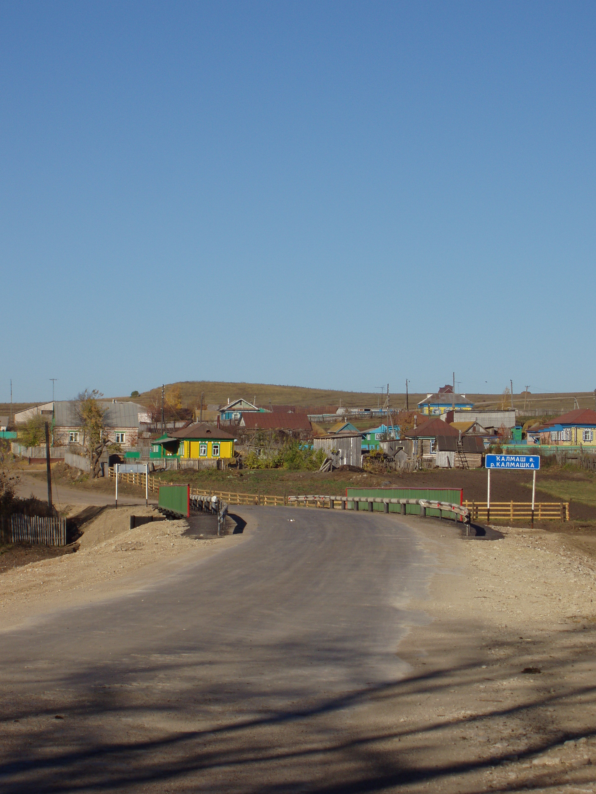 Bridge across the Kalmash river after reconsruction [Oct 2005]